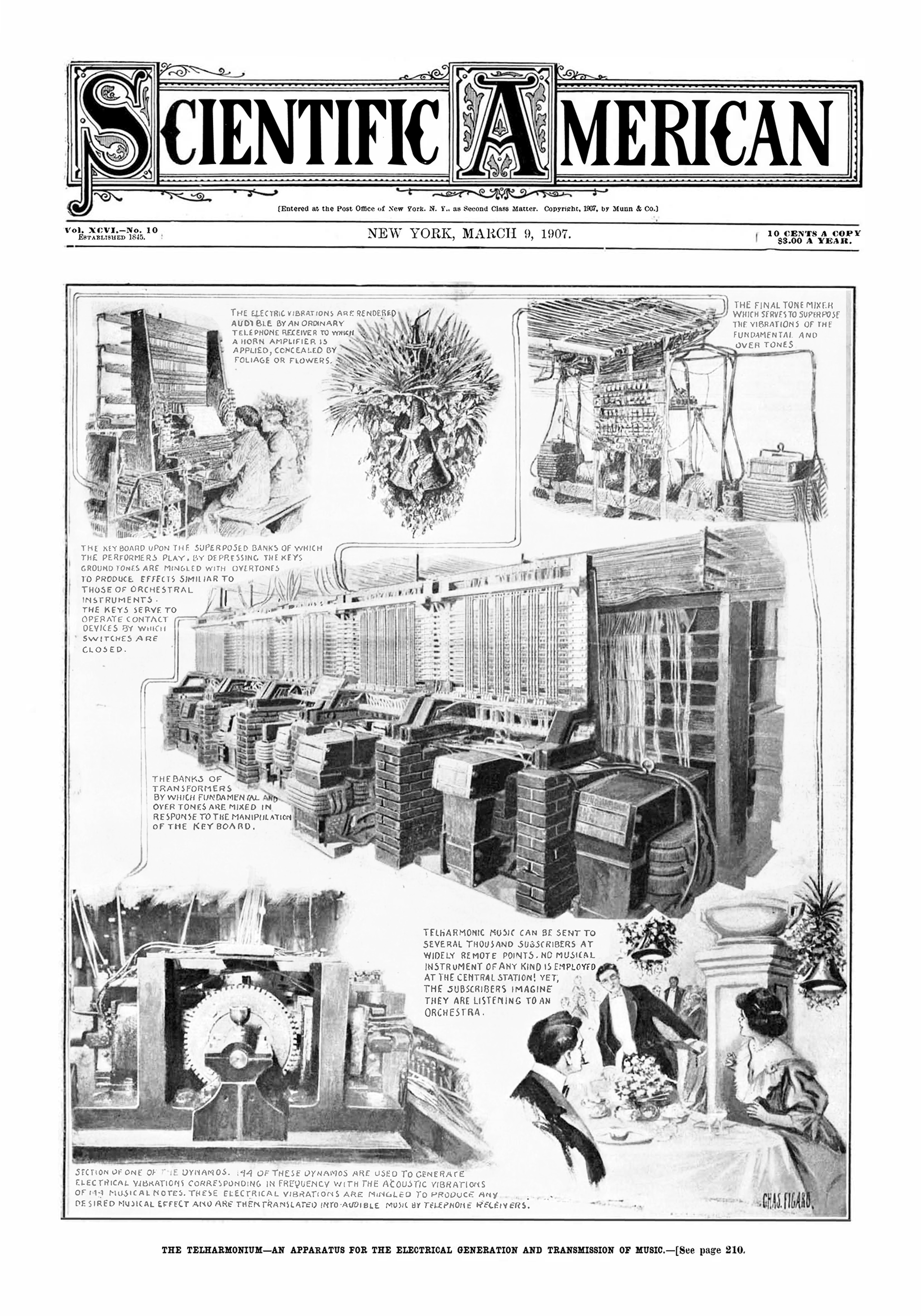 The Telharmonium depicted on the front page of Scientific American. Original publication: (March 9th 1907). Scientific American 96 (10). Immediate source: The ‘Telharmonium’ or ‘Dynamophone’ Thaddeus Cahill, USA 1897. 120 Years of Electronic Music .